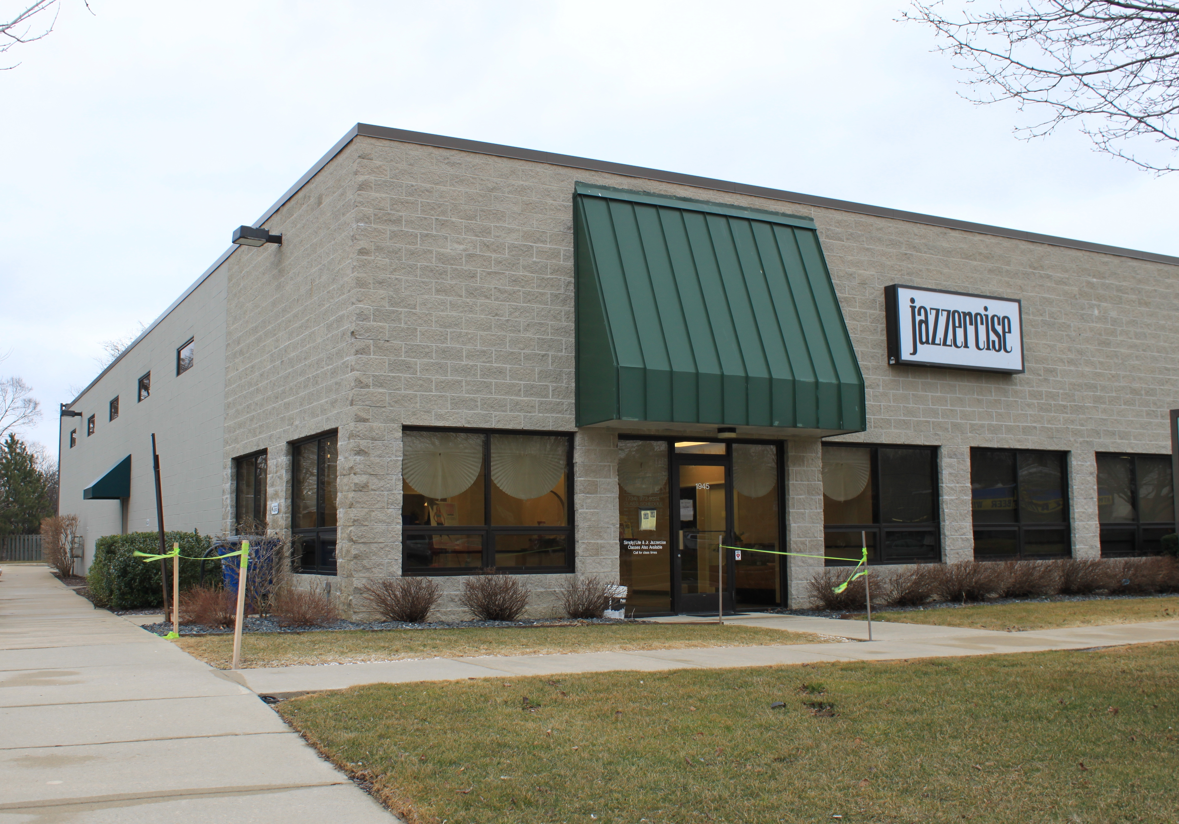 Jazzercise franchise, 1945 South Industrial Highway, Ann Arbor, Michigan.